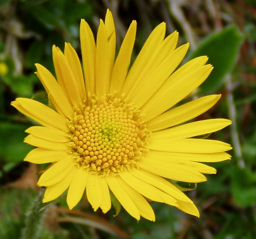 Doronicum glaciale subsp calcareum, photo taken at Rax, Lower Austria. Approx. 1600 m